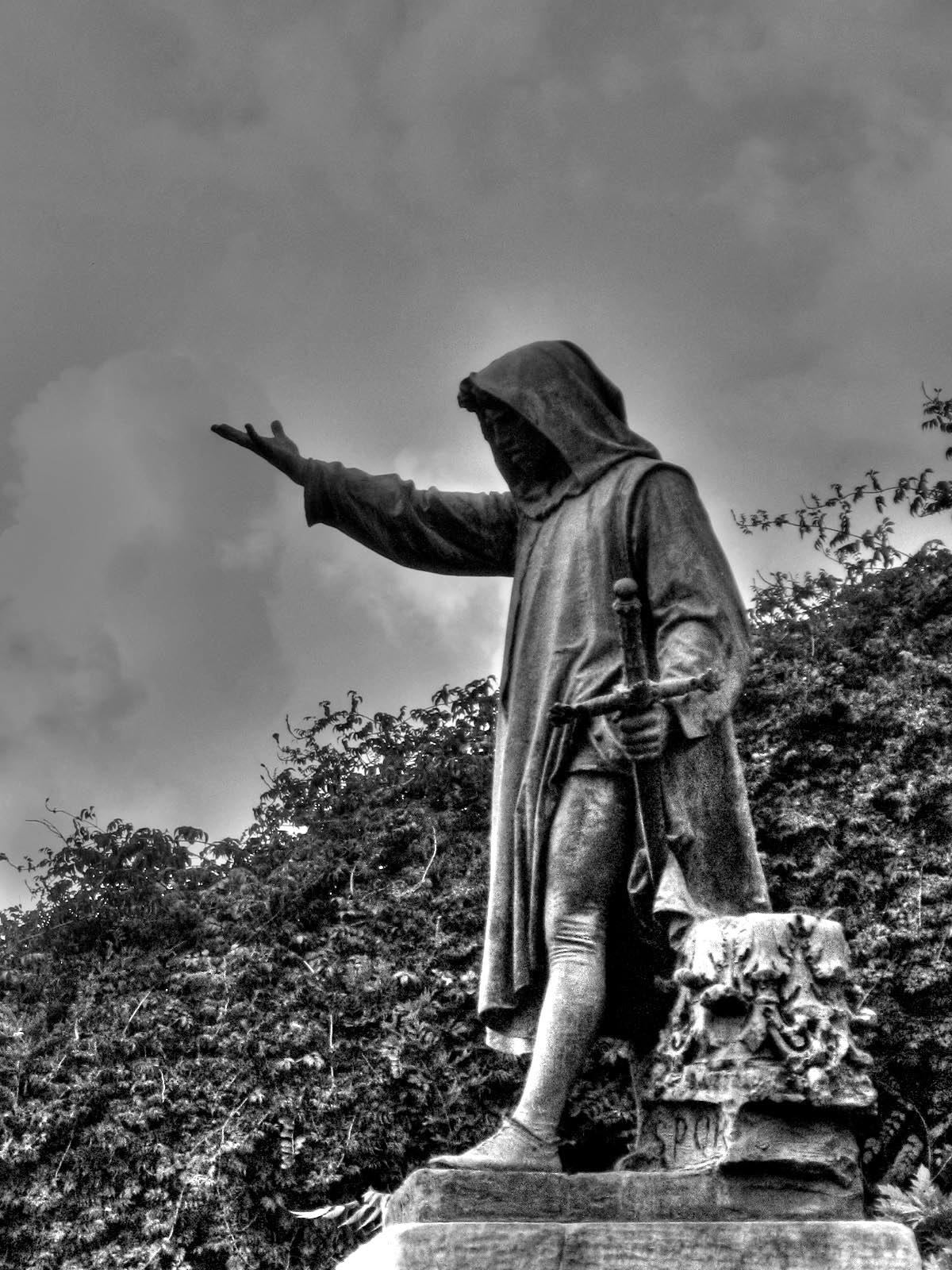 Girolamo Masini (1840–1885), Monument to Cola di Rienzo (1887), on the Capitoline hill, in Rome, Italy.